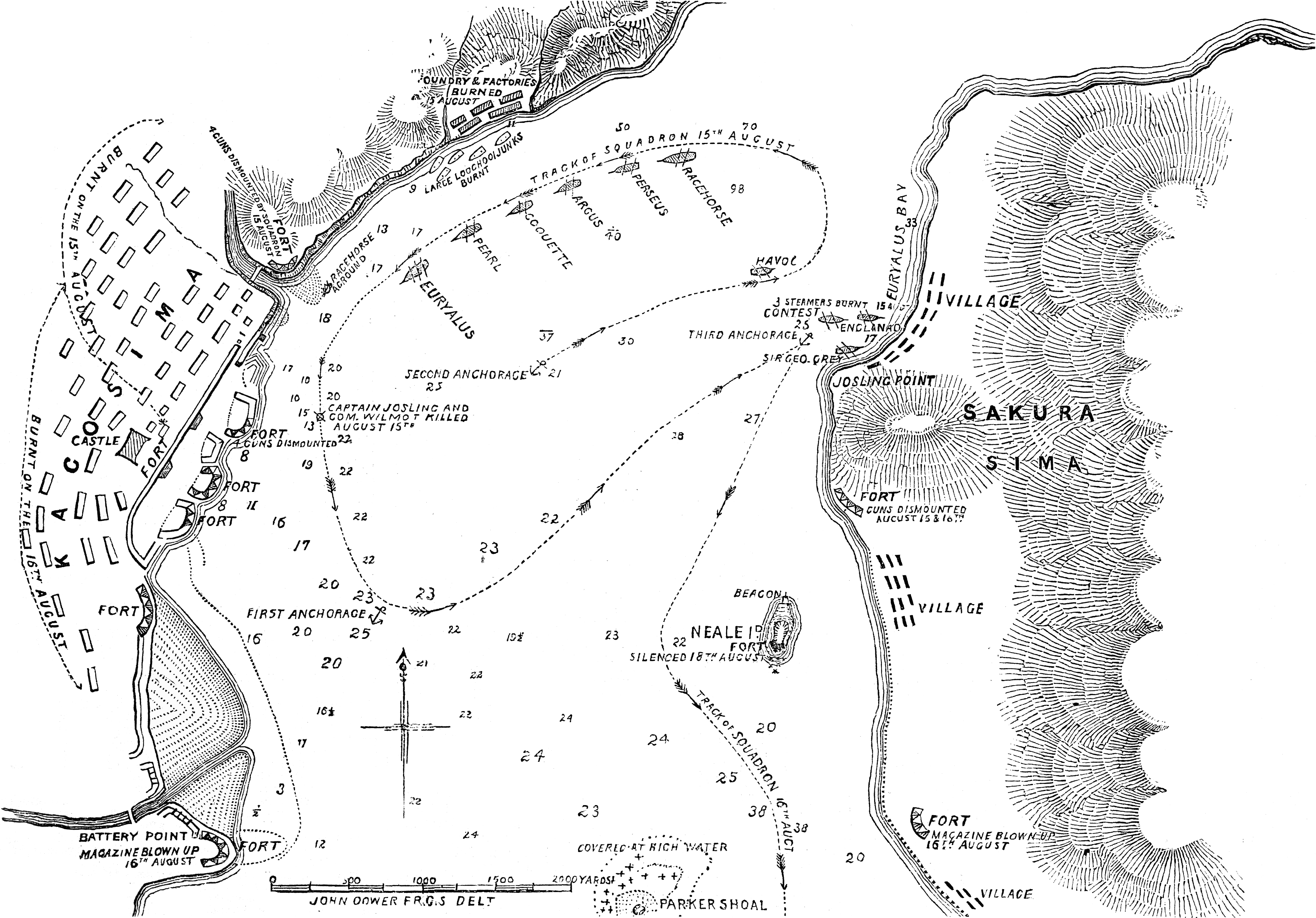 Map of the bombardment of Kagoshima, 15-16 August 1863Text of cropped caption: THE HARBOUR OF KAGOSIMA, JAPAN,—SEE PAGE 481.